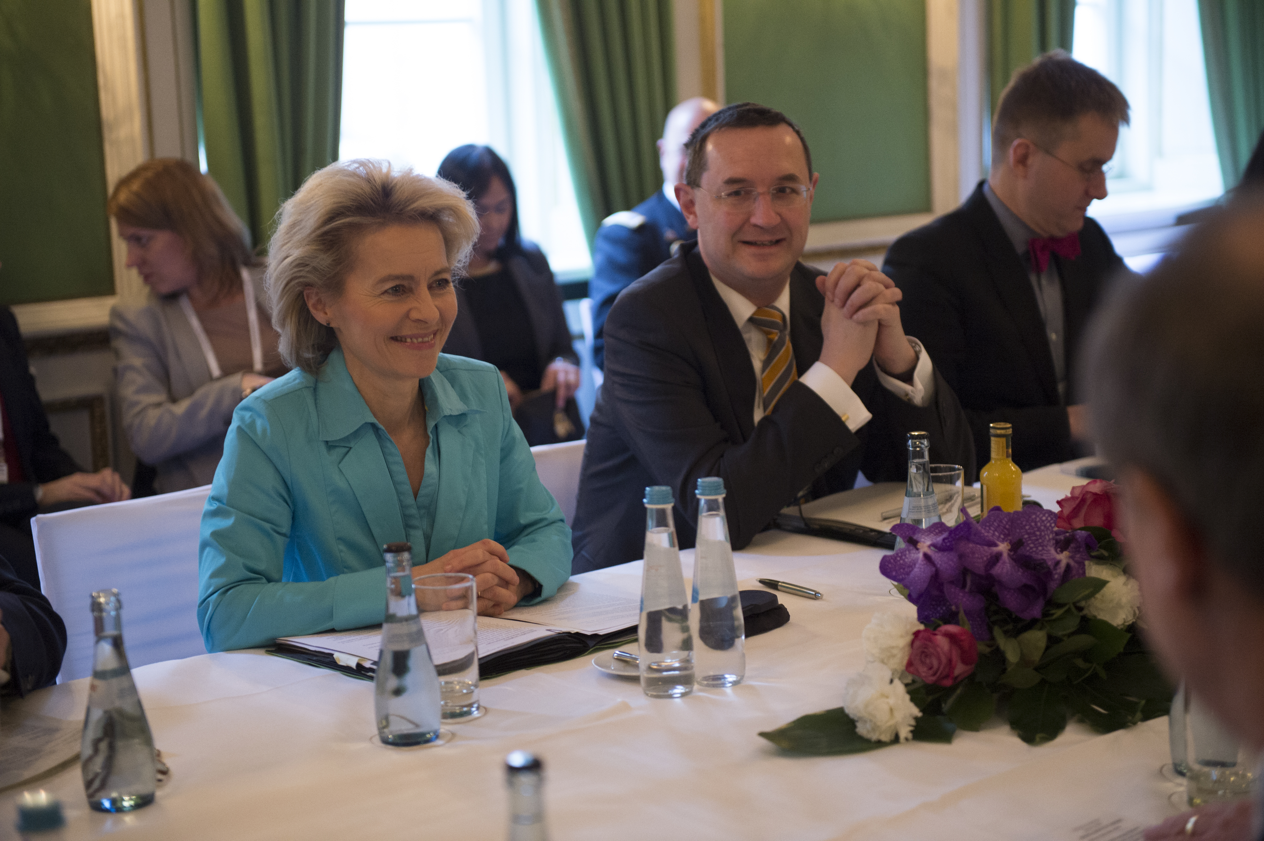 U.S. Defense Chuck Hagel meets with German Defense Minister Ursula von der Leyen at the Munich Security Conference in Germany, Feb. 1, 2014.